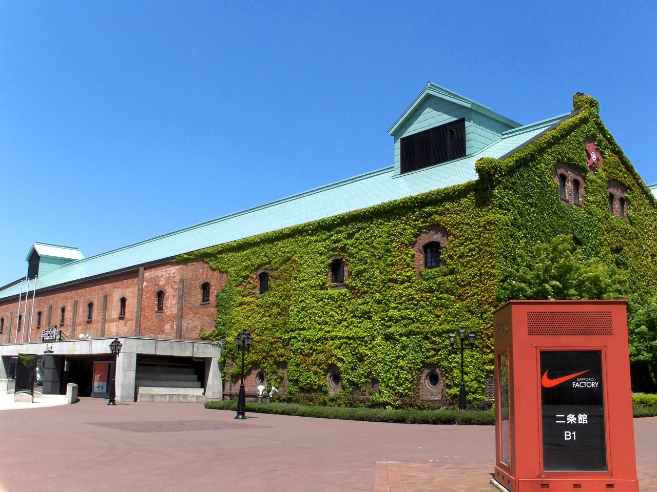 The Sapporo Factory Renga-kan in Sapporo, Hokkaido, Japan.